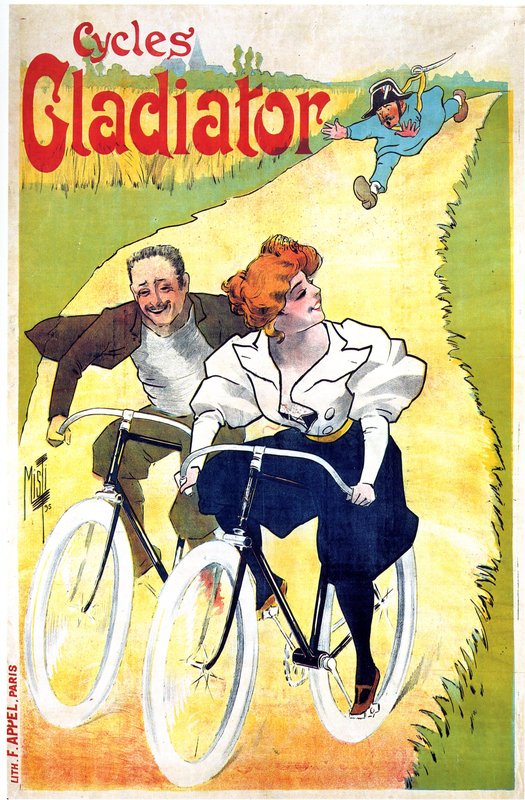 Advertising poster for Cycles Gladiator by Misti.